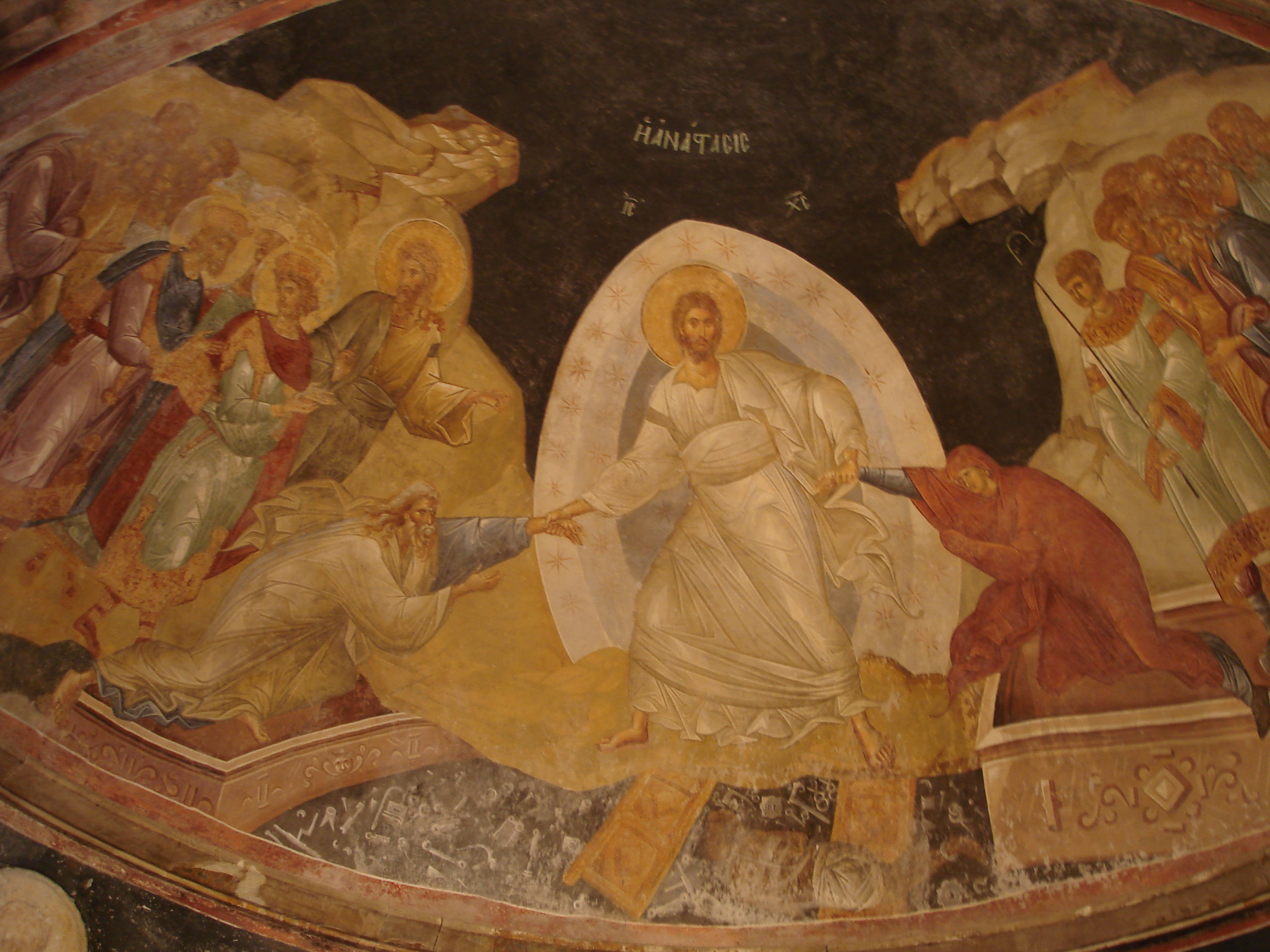 Chora Church in Instanbul. Fresco in the parecclesion. It represents the Anastasis (Descent into Hell). Jesus pulls Adam and Eve out of Hades by their hands. Behind them stand other biblical persons (John the Baptist, David and Solomon), the Patriarchs and other righteous.